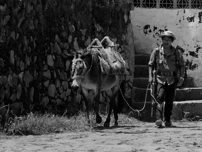 ERP combatants in Perquín, El Salvador in 1990